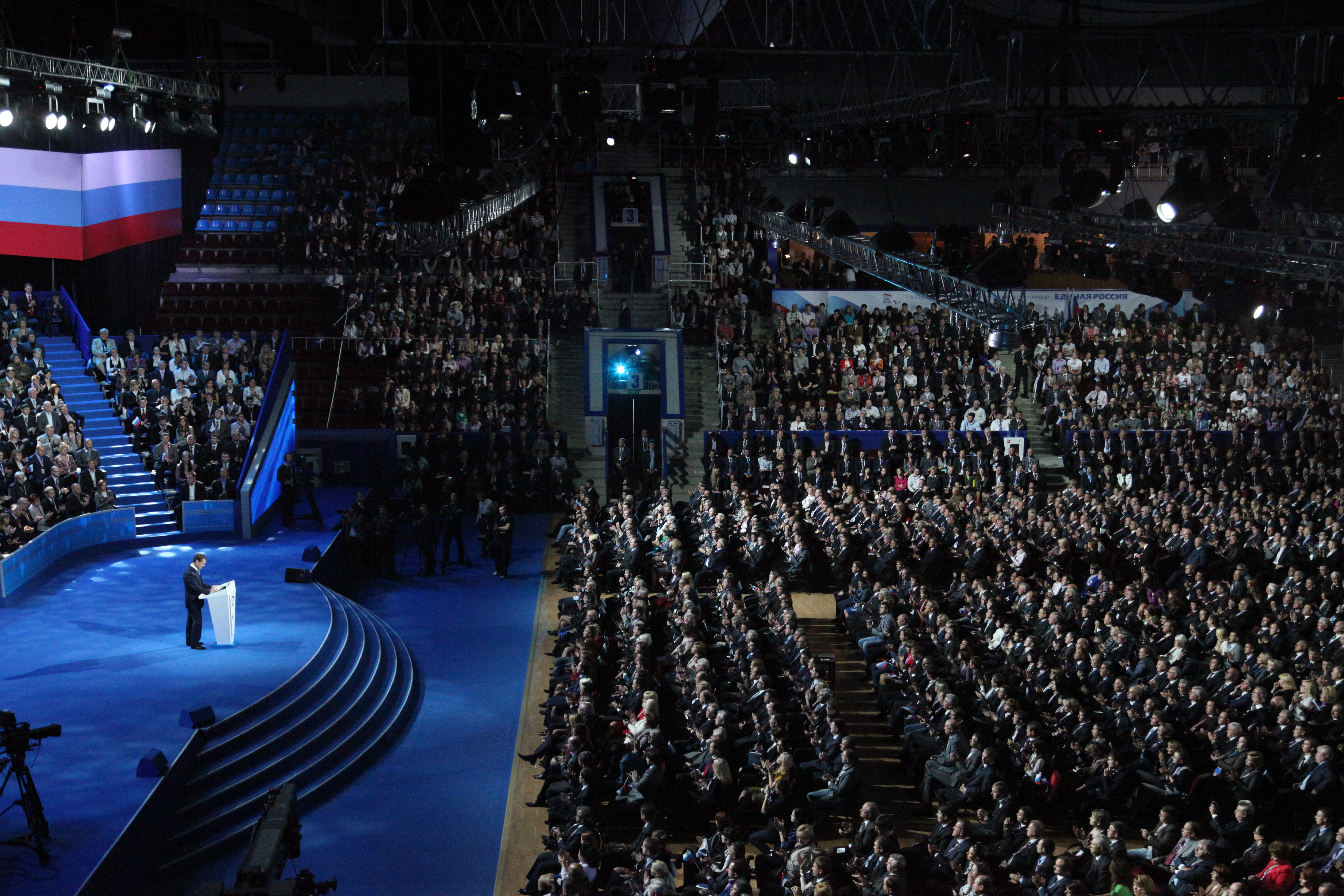 Dmitry Medvedev at the XII Congress of United Russia Party, 24.09.2011